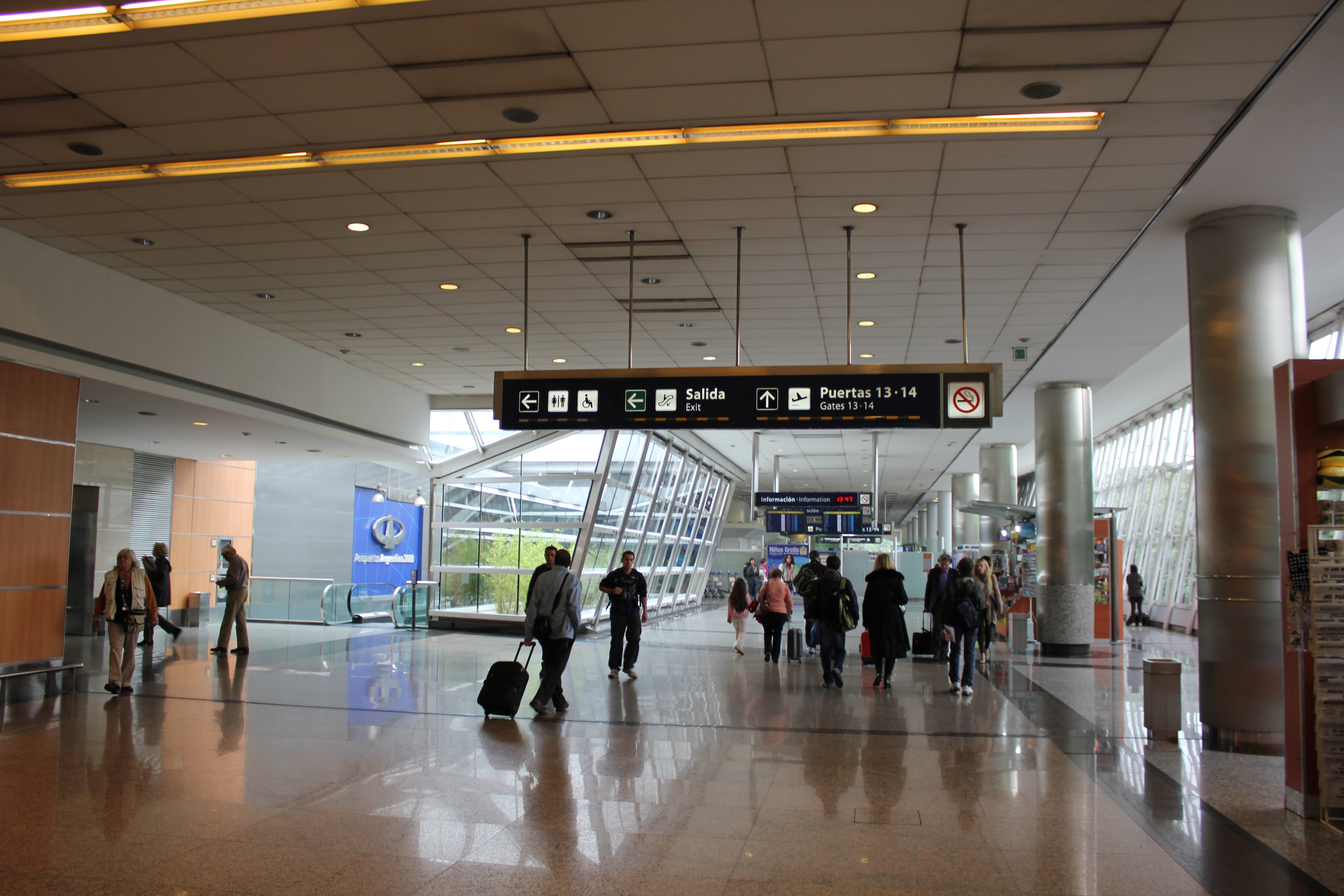 Aeroparque Jorge Newberry, in Buenos Aires